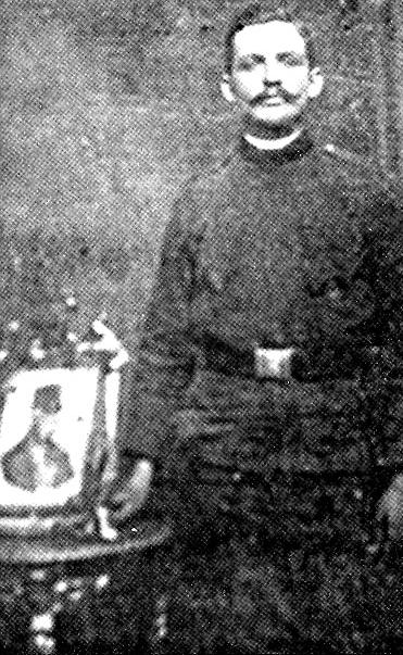 Alajos Drávecz slovene writer in Hungary and soldier of the Austro-Hungarian army